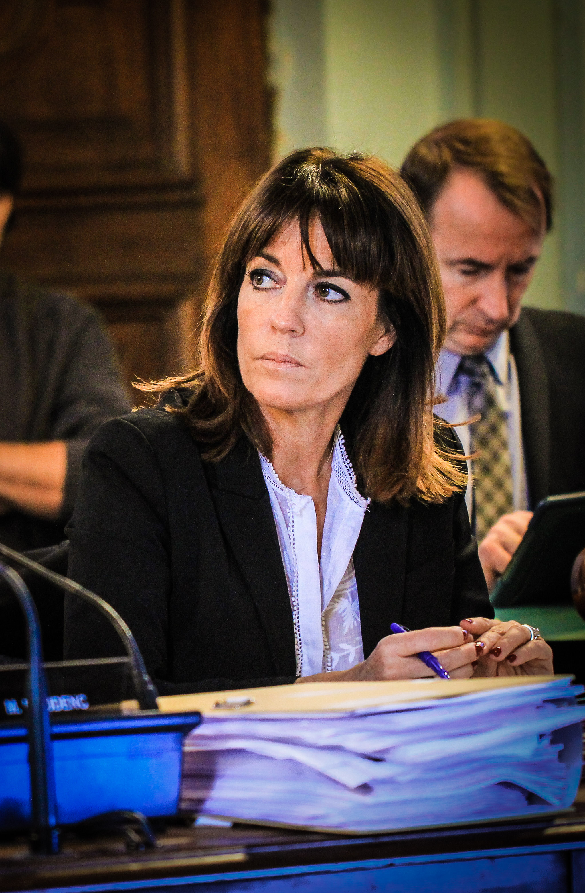 Laurence Arribagé, Member of the French Parliament and deputy mayor of Toulouse, during a session of the Municipal council, on October 16th, 2015.